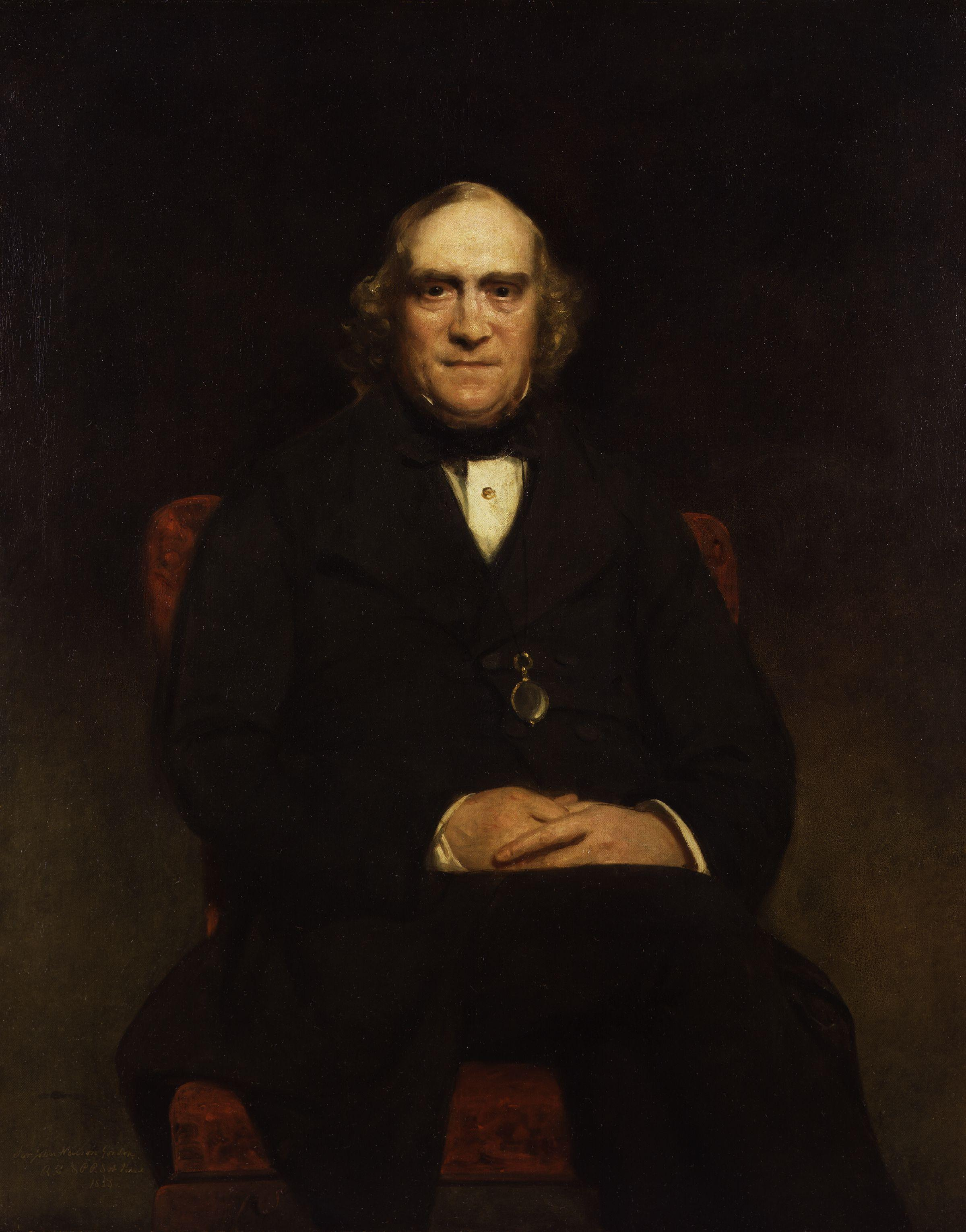 James Wilson, by Sir John Watson-Gordon (died 1864), given to the National Portrait Gallery, London in 1928. All images in this batch have been confirmed as author died before 1939 according to the official death date listed by the NPG.